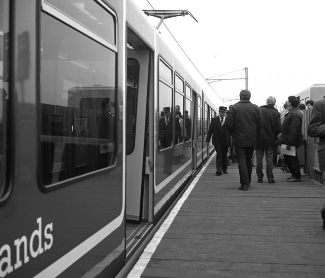 Docklands Light Railway car at Debdale Park, Manchester Car No 11 giving a demonstration to City Councillors etc. before Metrolink was introduced